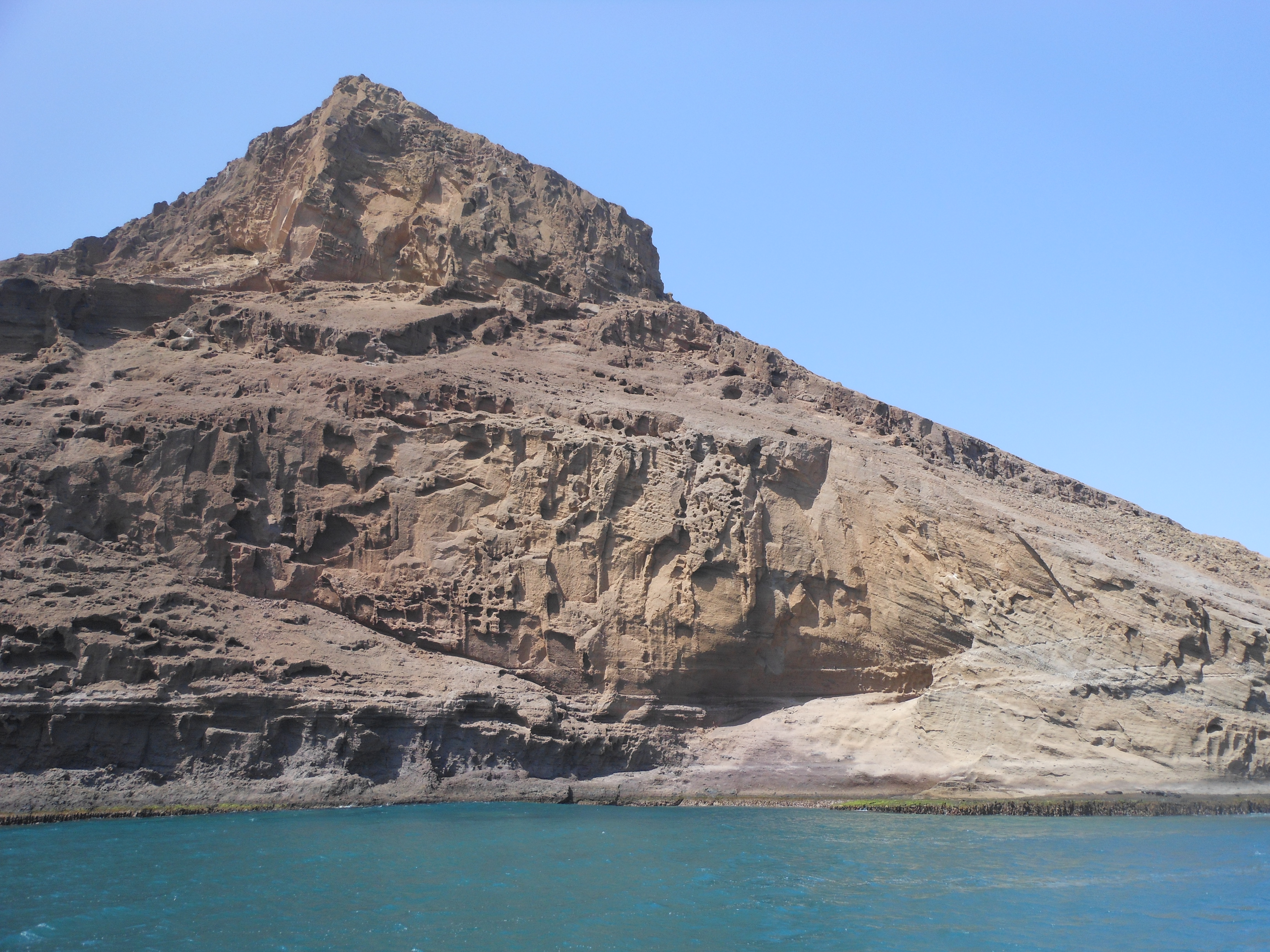 Cape Verde, Sal island, Lion hill.